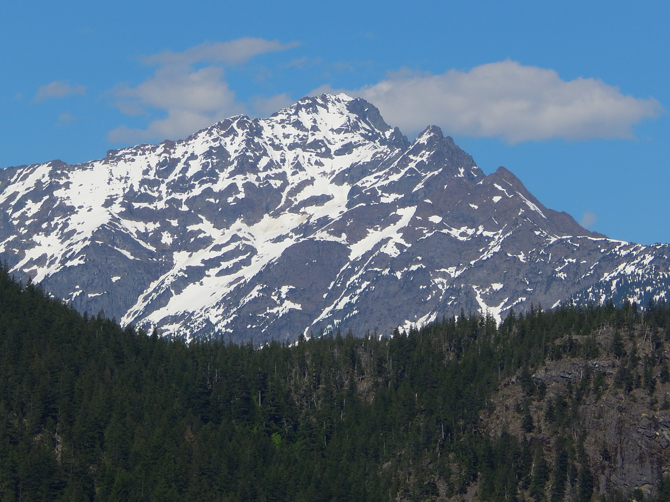 Jack Mountain seen from west. North Cascades of WA